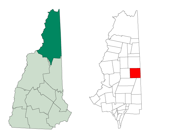 Map of a municipality in Coos County, New Hampshire